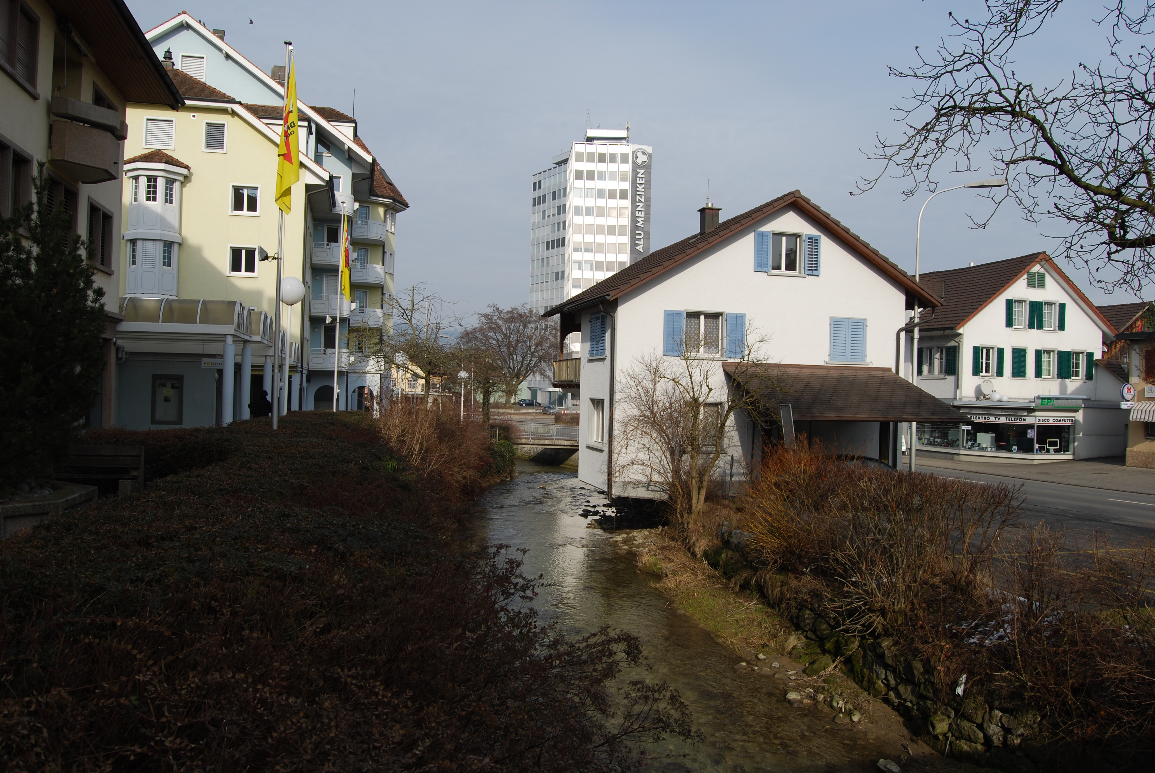 River Wyna and Alu Menziken High Rise at Menziken, canton of Aargau, SwitzerlandEsperanto: Rivero Wyna kaj Alu-Menziken-Altdomo en Menziken, Kantono Argovio, Svislando